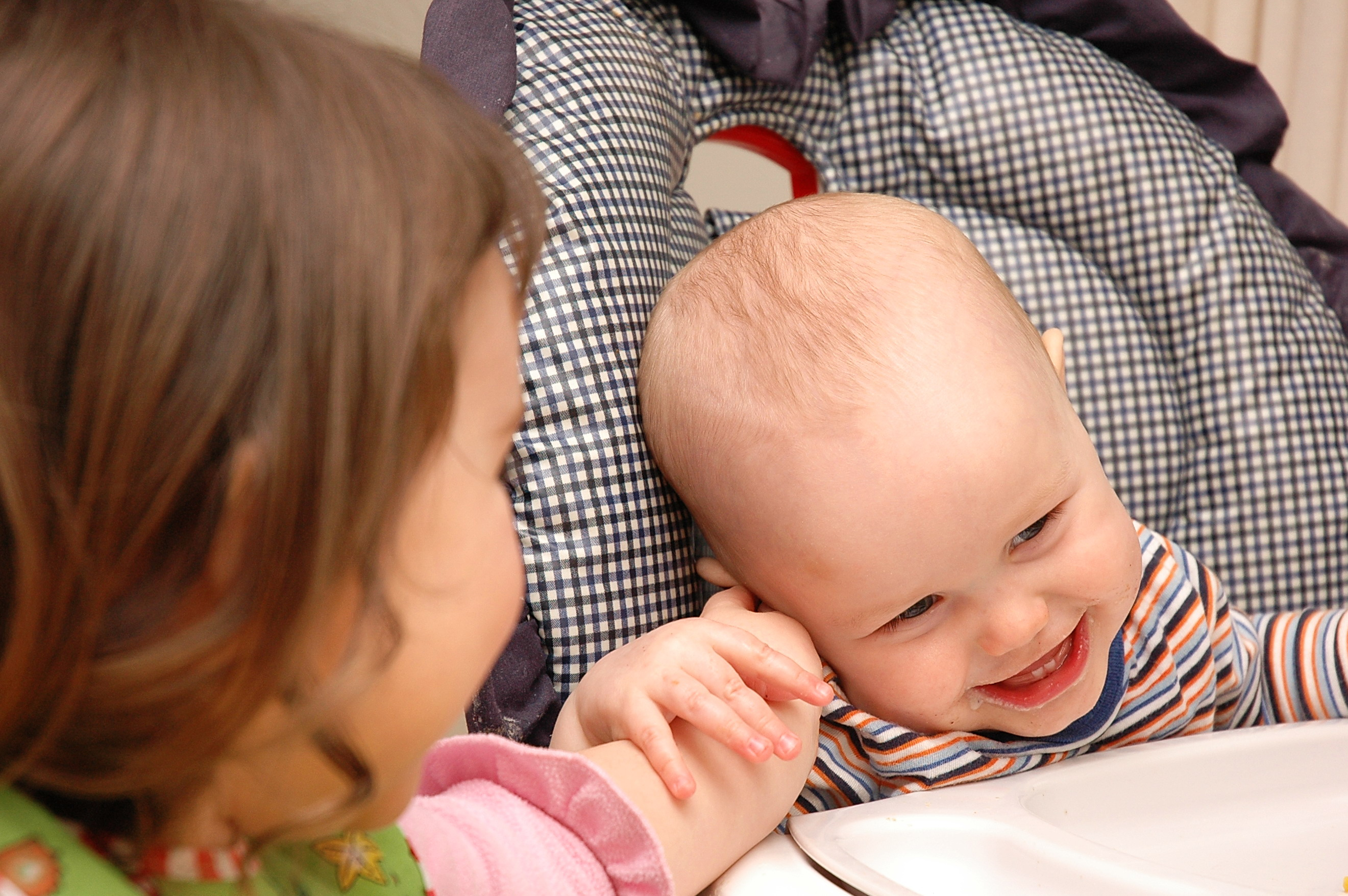 A young girl tickles her sibling, evoking a pleasurable response in the child being tickled. Consider yourself tickled. — Sebastian 04:26, 12 January 2008 (UTC).